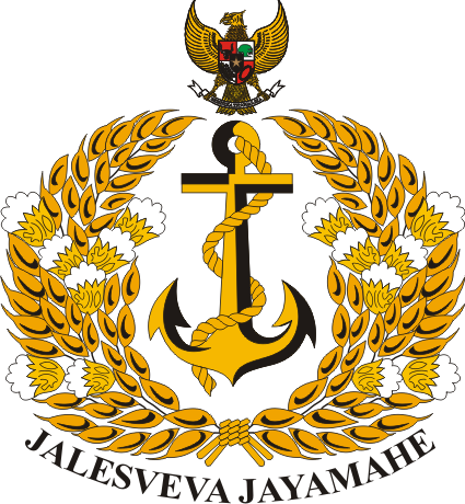 This is the insignia of the Indonesian Navy